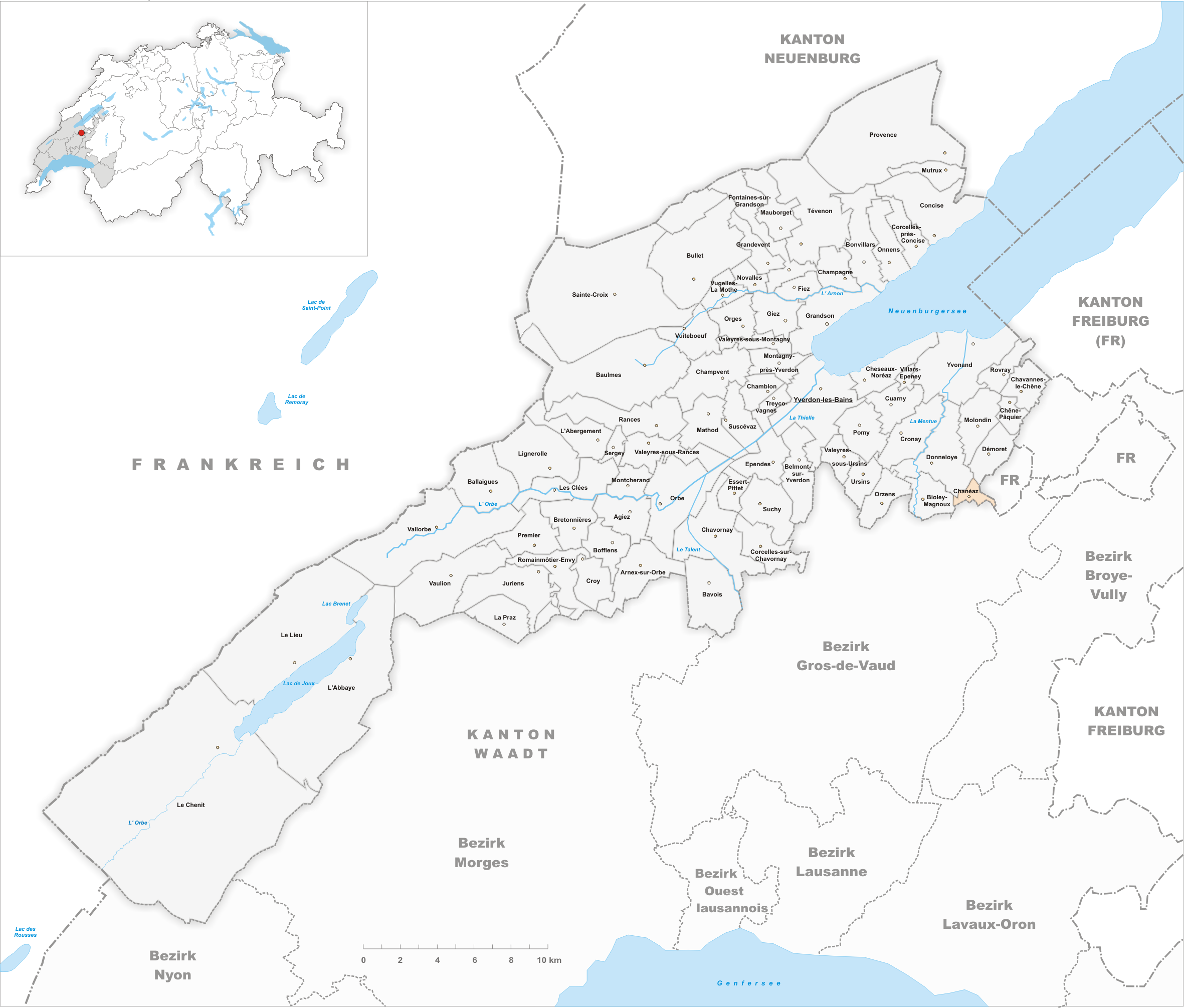 Municipality Chanéaz